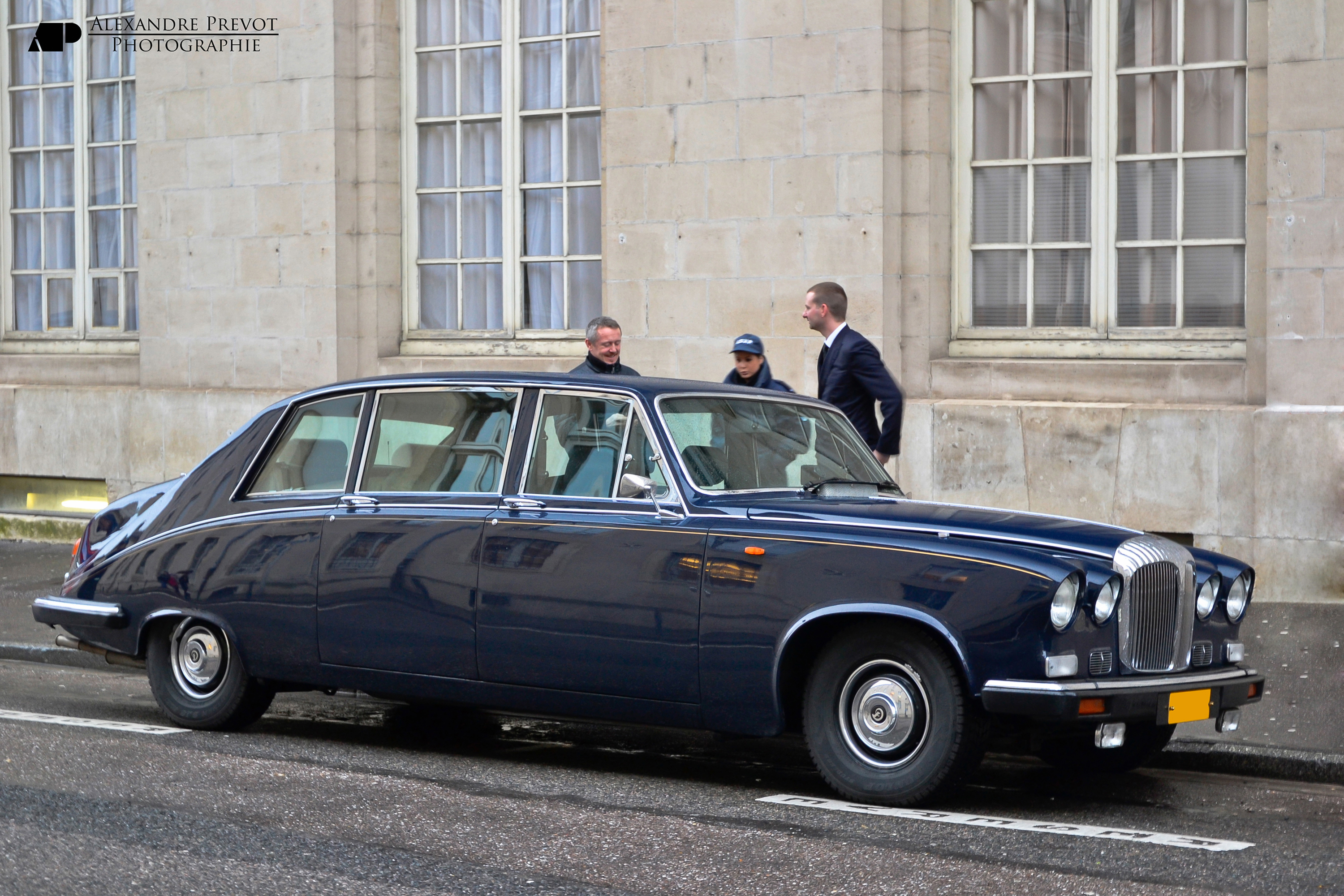 Daimler limousine DS420. This photo was taken on December 28, 2012 in Nancy, Lorraine, FR